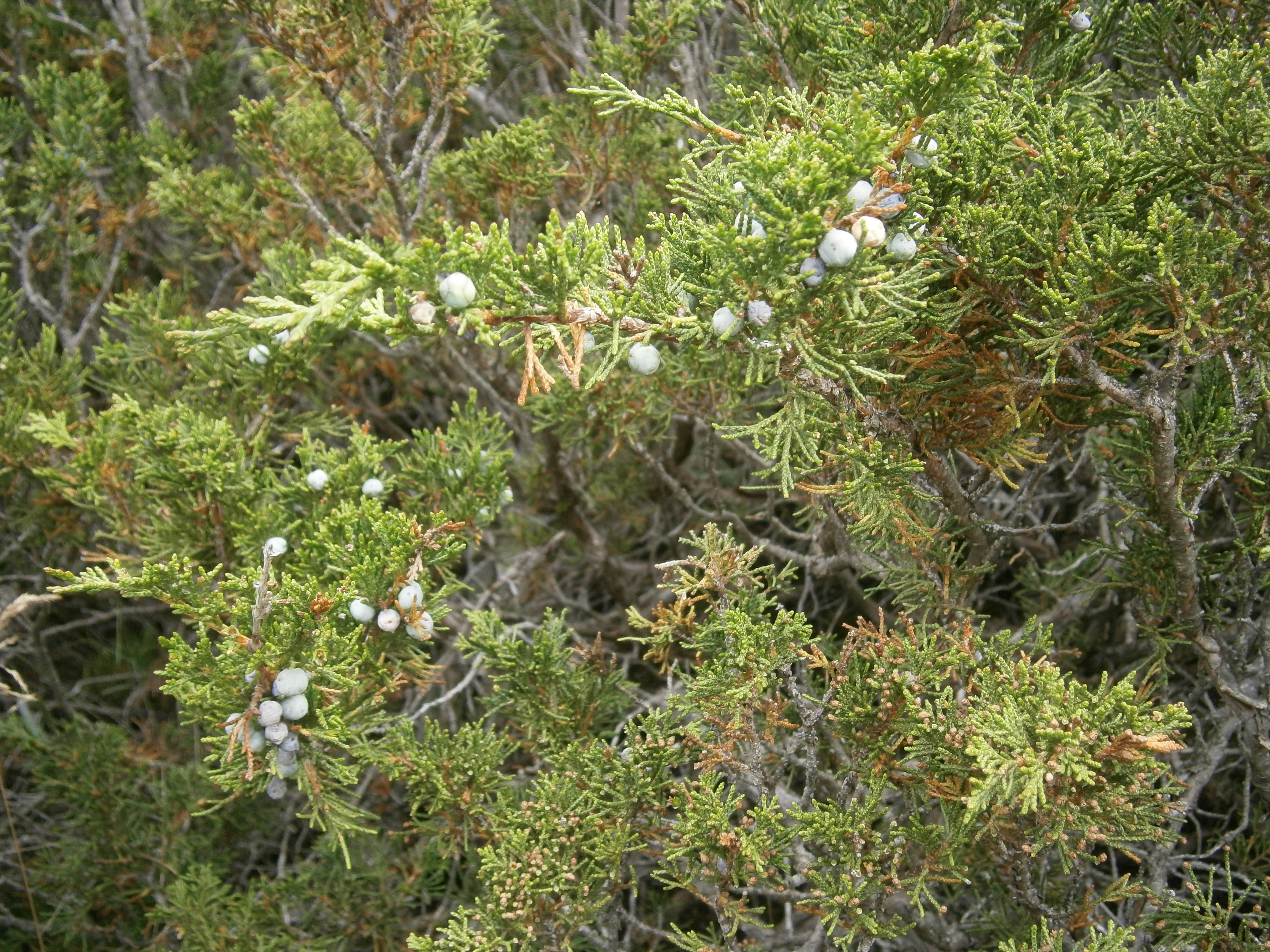 Juniperus sabina in the Parc naturel régional du Queyras, Hautes-Alpes, France